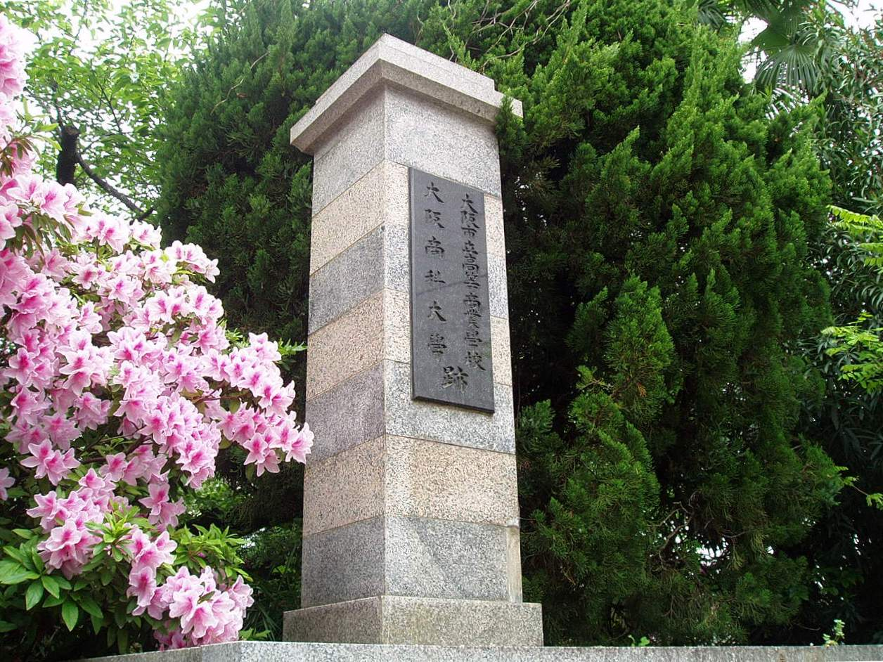 Memorial stone of Osaka University of Commerce (one of the predecessors of Osaka City University) in Karasugatsuji, Tennoji-ku, Osaka, Japan.The university was located here 1911 - 1934, then moved to present-day Sugimoto Campus.